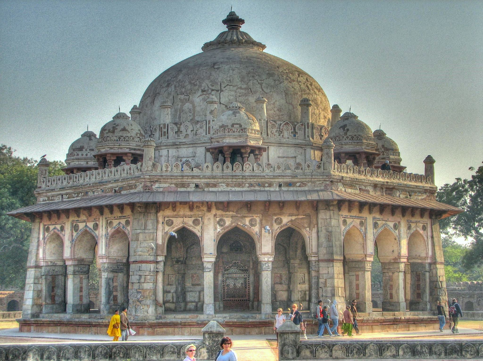 Tomb of Isa Khan Niyazi built around 1547 AD, Delhi.